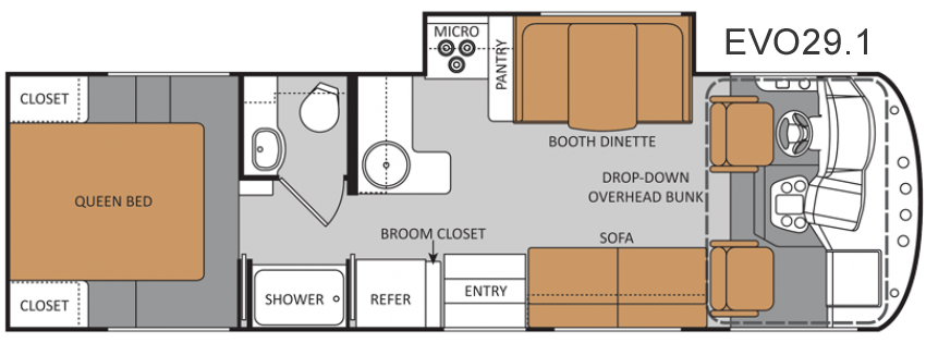 Class A Motorhome Floor Plan (Thor Motor Coach ACE EVO29.1)